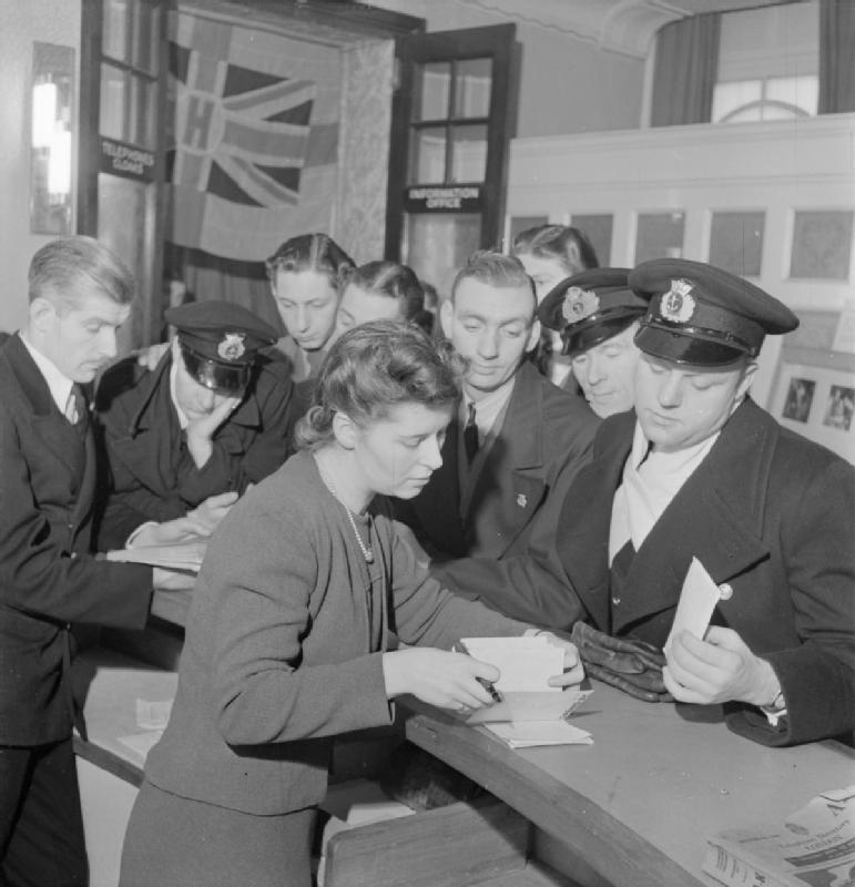 A Merchant Seaman Comes To Town- the work of the Merchant Navy Club, Piccadilly, London, 1942 25 year old Merchant Seamen Richard Pates arrives at the Merchant Navy Club in Piccadilly and is greeted by the female 'guide', Mrs Elsie Clunas in the entrance hall. Elsie is known by all at the club as 'Aunty Elsie', despite the fact that she is only 27 years old. She is also known as 'Geordie' Clunas, as she is from Newcastle. Before the war she was a window dresser. Several other Merchant Seamen await their turn at the counter, whilst others are helped by a male club 'guide'.